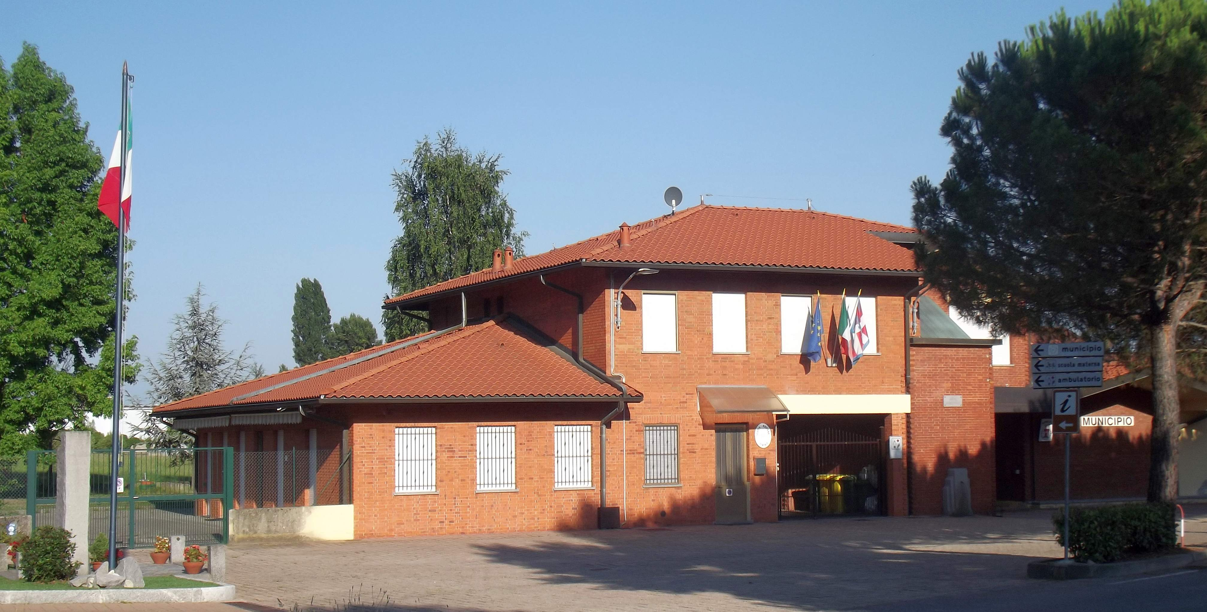 Cerreto Castello (BI, Italy): town hall